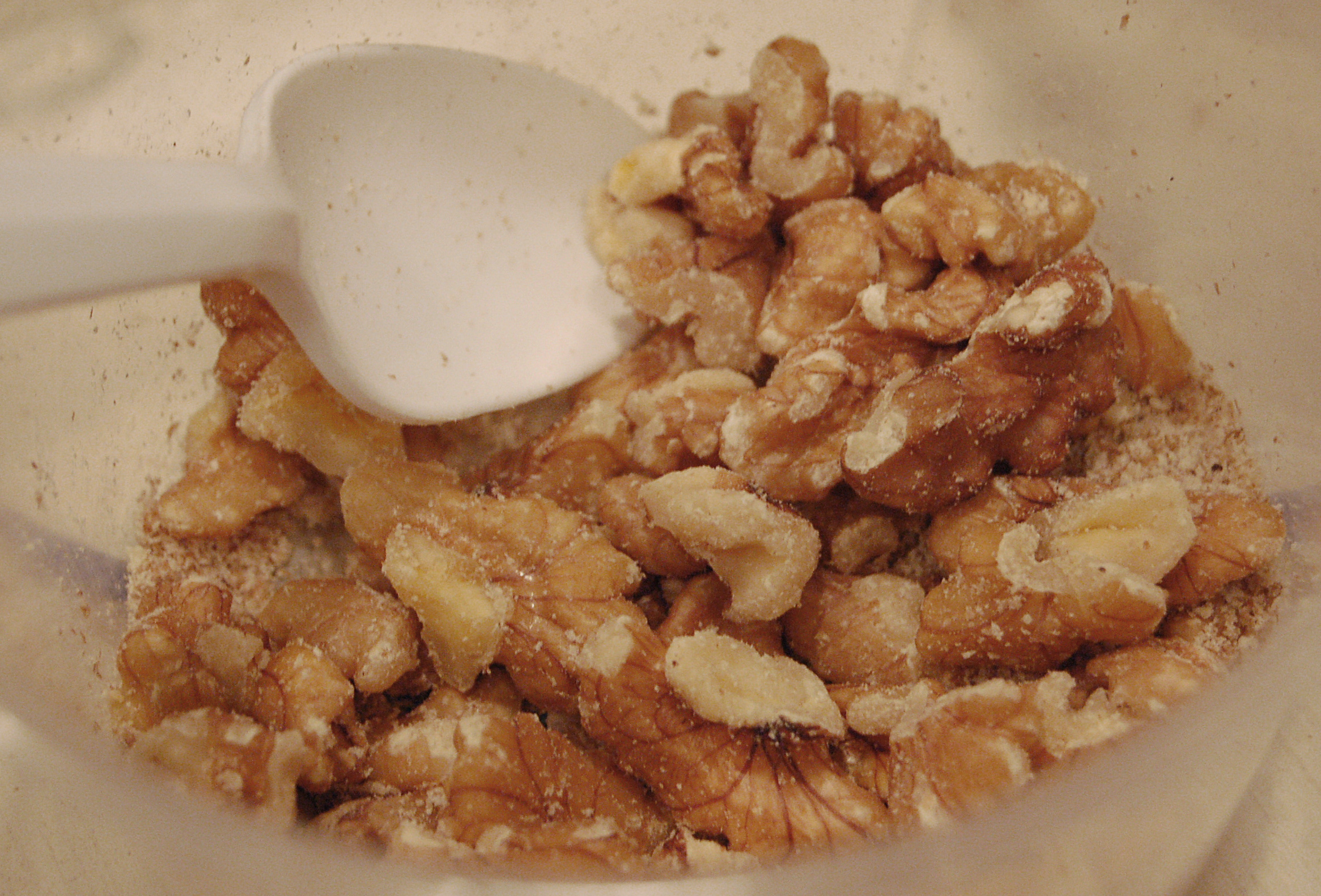 A photograph of some shelled Persian Walnuts (Juglans regia). Picture was taken at a local market in Delaware County, Pennsylvania.